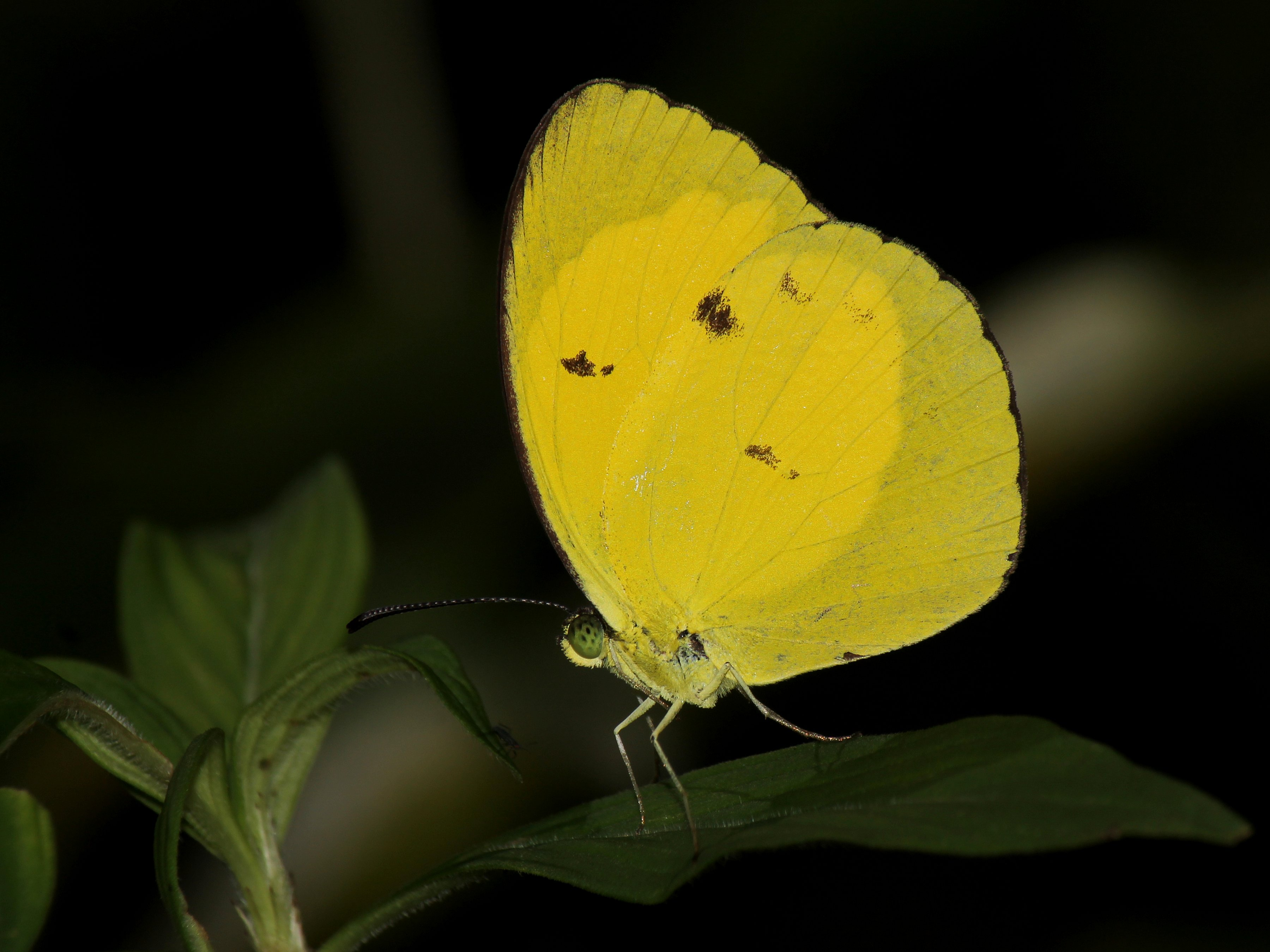 Eurema tominia tominia at Tombatu, North SulawesiBahasa Indonesia: Eurema tominia tominia di Tombatu, Sulawesi Utara